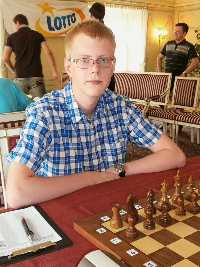 Kacper Drozdowski playing in the 5th International GM Tournament "The Lublin Union Memorial" in Lublin (Poland)